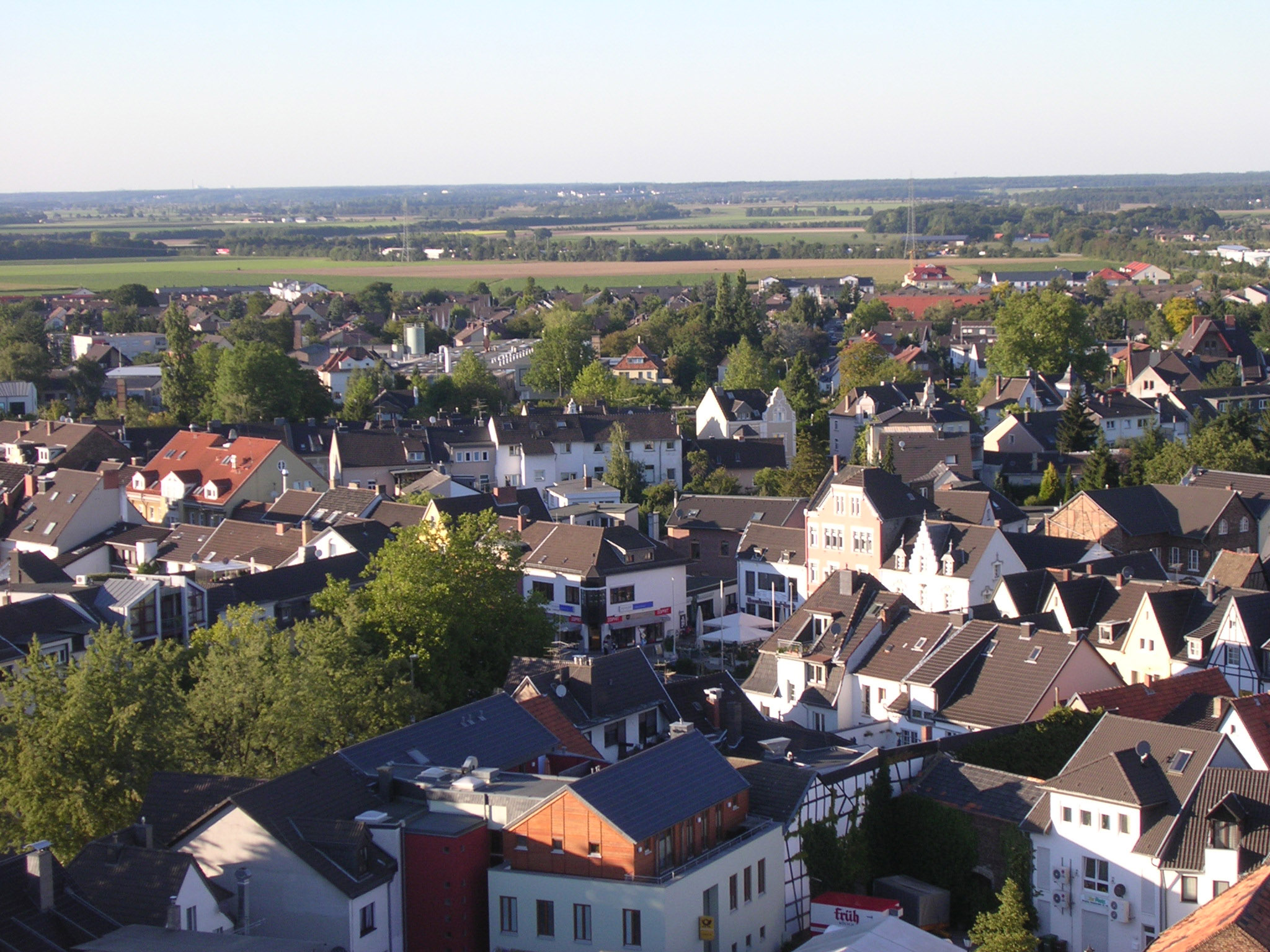 A bird`s-eye view of the city of Rheinbach, the photo was taken on board of a giant wheel during the so-called Rheinbach autumn kermis.